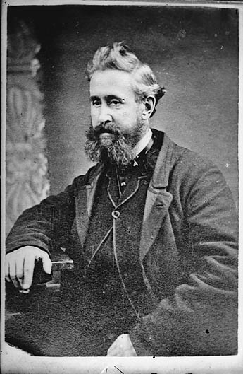 1 negative : glass, wet collodion, b&w ; 11 x 16.5 cm.